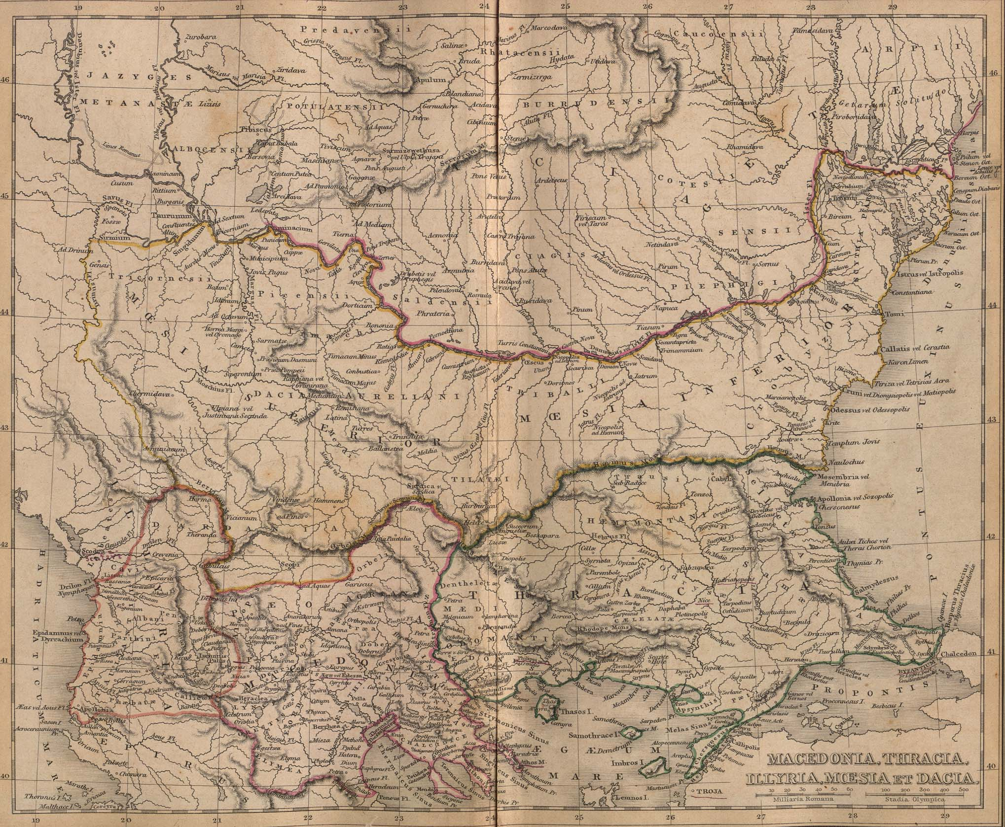 Macedonia, Thracia, Illyria, Moesia, Dacia,(Map X),"Comment on Map from author; Map X., & c. - Although most portions of this map are well represented, still we have a deficiency in the classical portion, as it has not been yet sufficiently examined by those who are capable of deciding and systematizing the comparative geography." This map includes even 2nd century AD (i.e. Adrianopolis) cities and perhaps even later ones. This map is a Post-Roman conquest map, the atlas was called "classical" and included many types of maps. Locations of many cities, tribes or other features are according to 1849 scholarship and not up to date. For example, many cities shown have not been identified yet and Findlay made arbirtrary conclusions. A great omission is that Lake Prespas are missing.